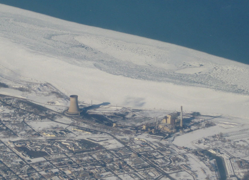 Air photo of Michigan City Power Plant, Michigan City, Indiana, facing west in January 2009